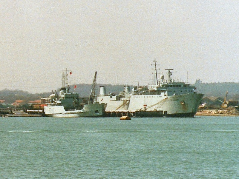 HMAV St.George (A382) (later RMAS Arrochar- IMO 7924267) and RFA Sir Caradoc (L3522) (IMO 7224837) at Marchwood Military Port